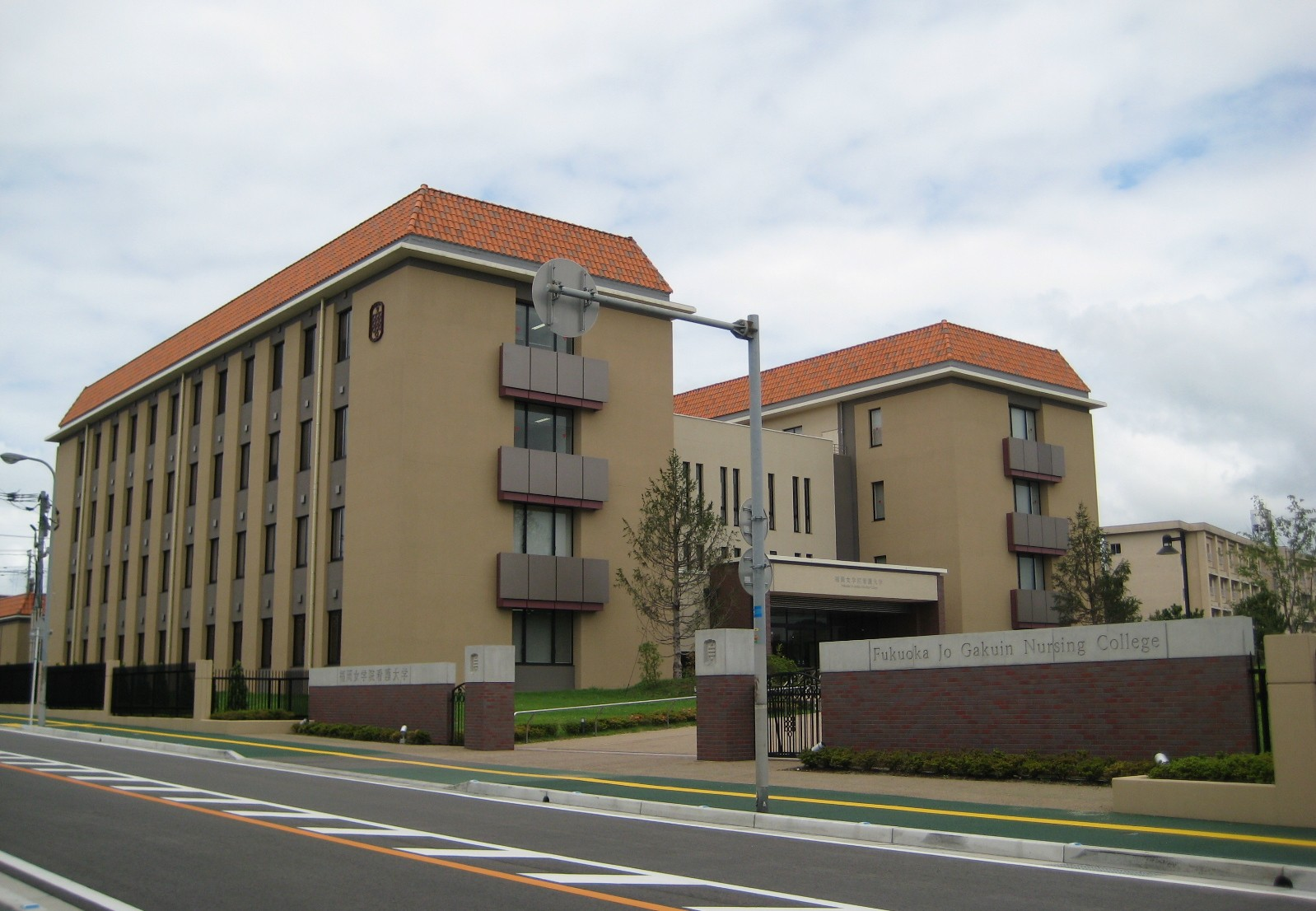 Fukuoka Jogakuin Nursing College